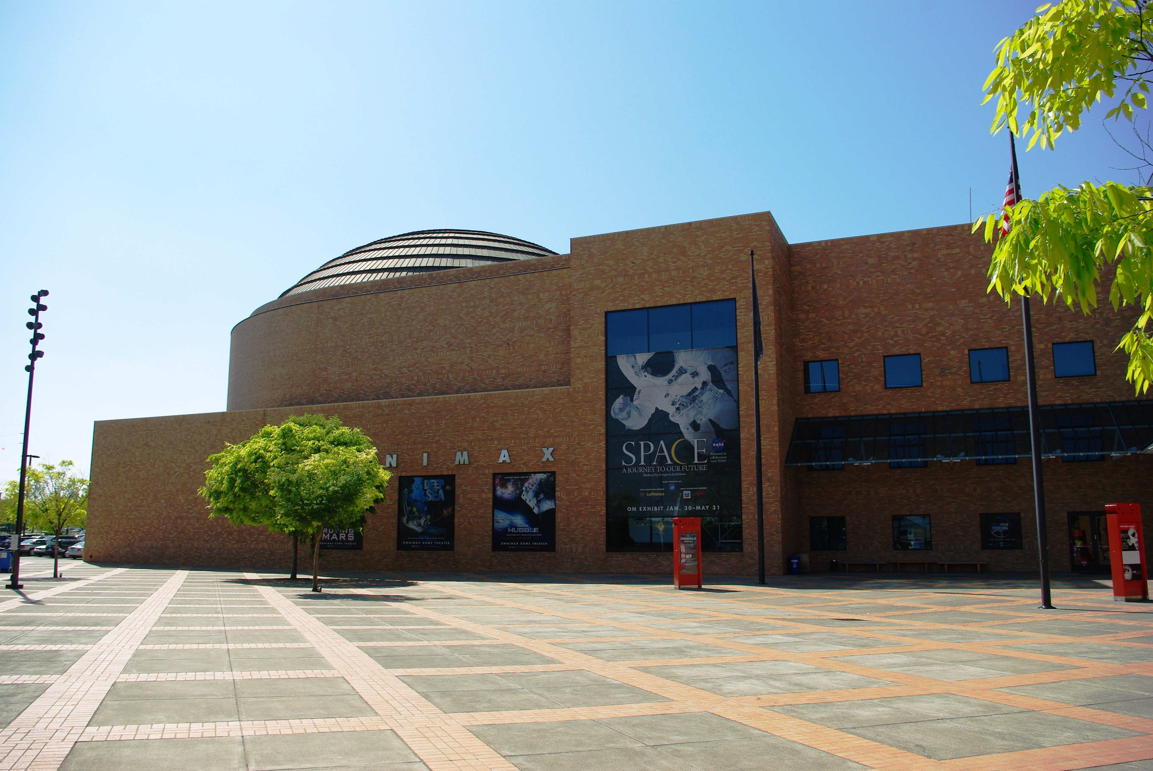 Outside the OMNIMAX theater at the Oregon Museum of Science and Industry in Portland, Oregon. It was converted into a flat-screen (non-Omnimax) theater in 2013.